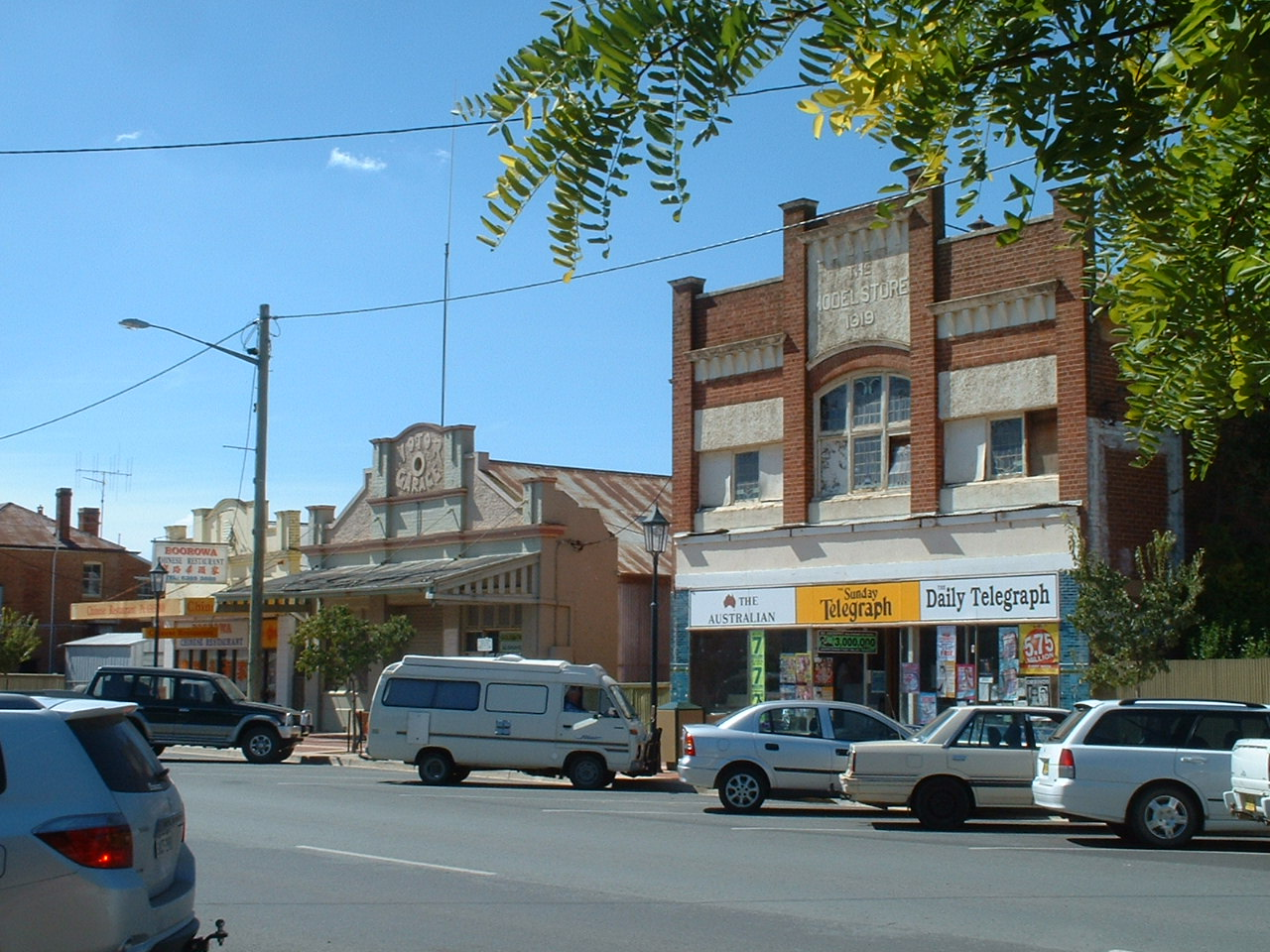 Main street of Boorowa, New South Wales. The building is the Model Store, built by the Learmonth family in 1918